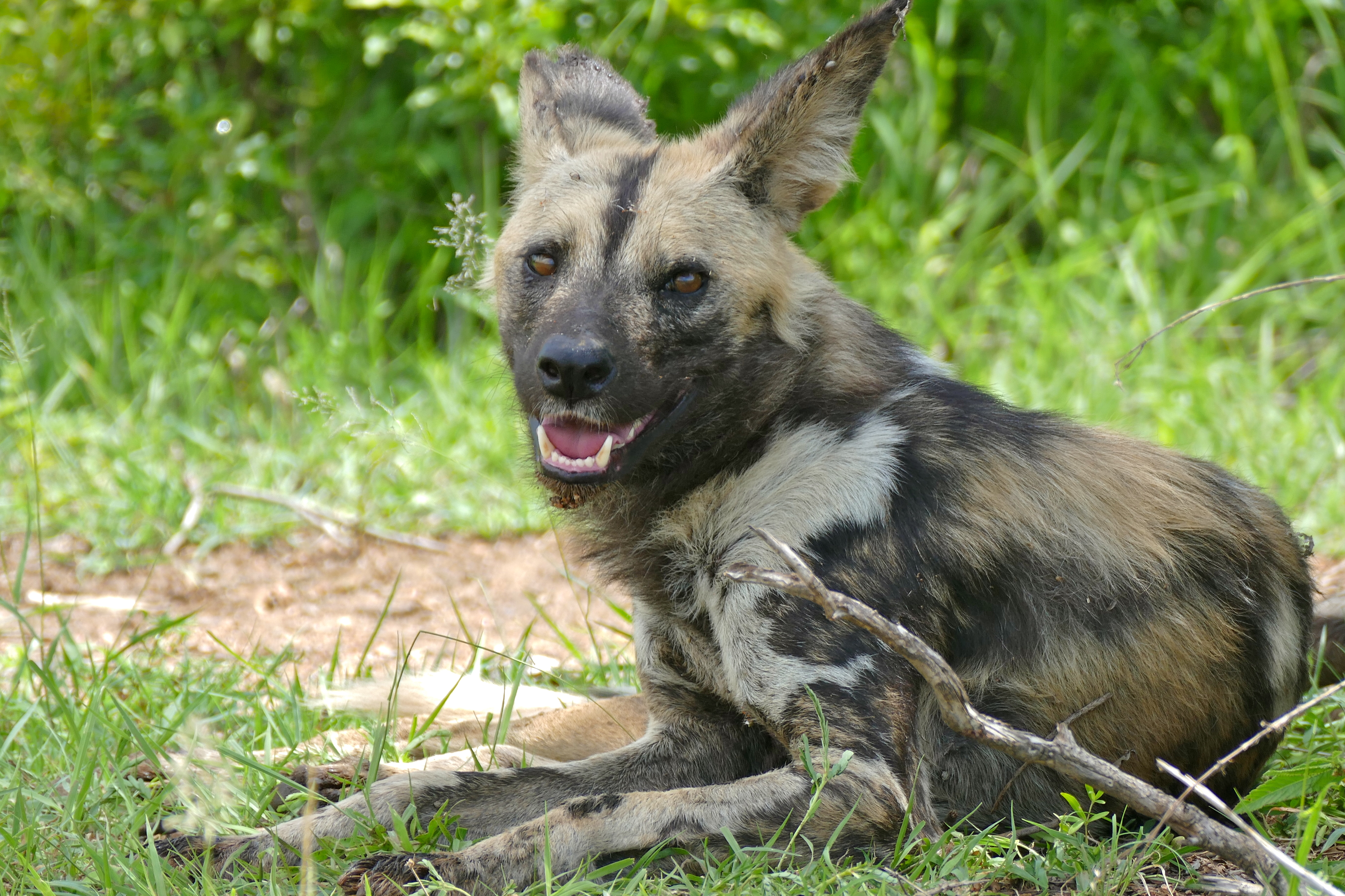 S28 Road South of Lower Sabie, Kruger NP, SOUTH AFRICA